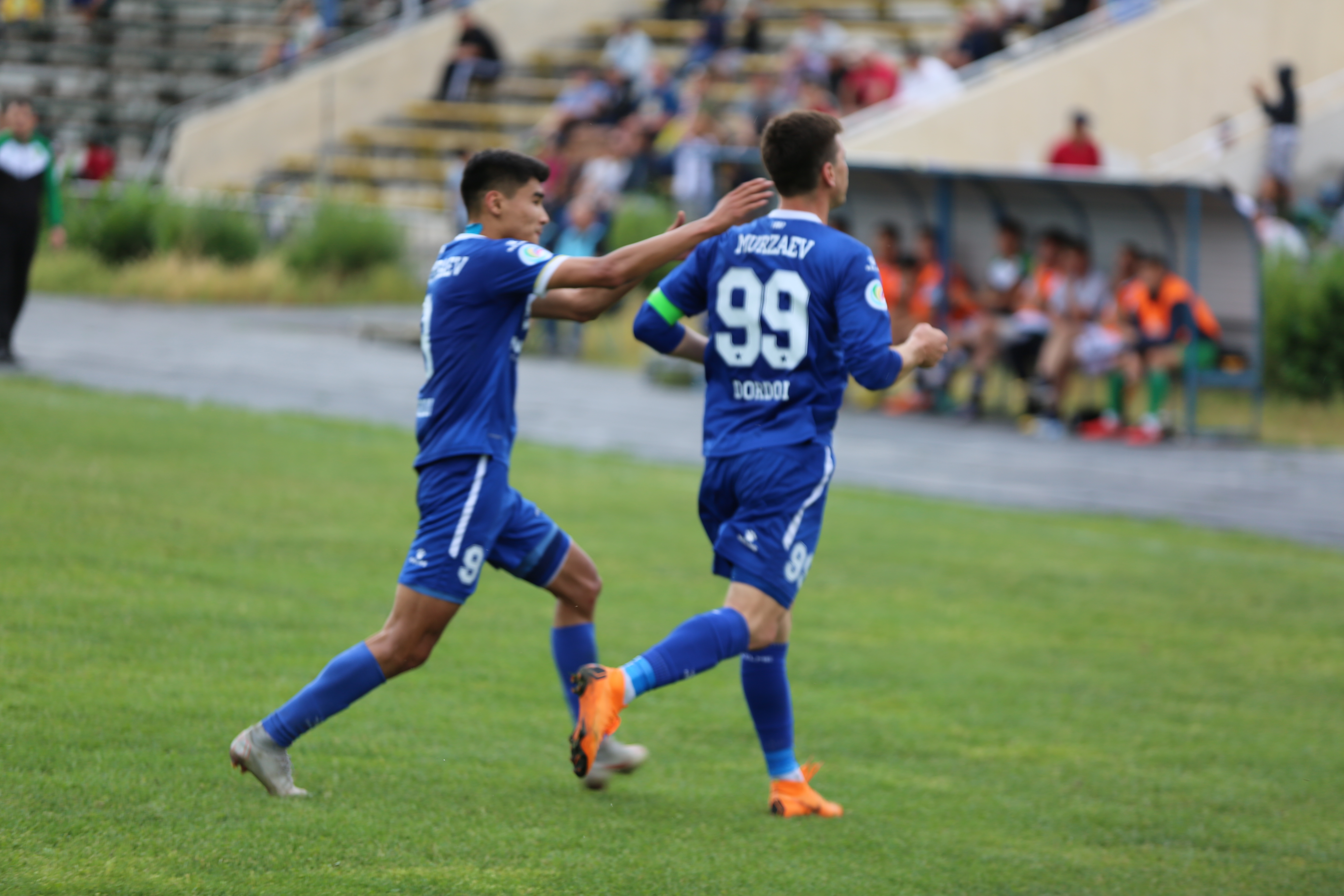 Bekzhan Sagynbaev and Mirlan Murzaev during a Dordoi-Kara-Balta football match